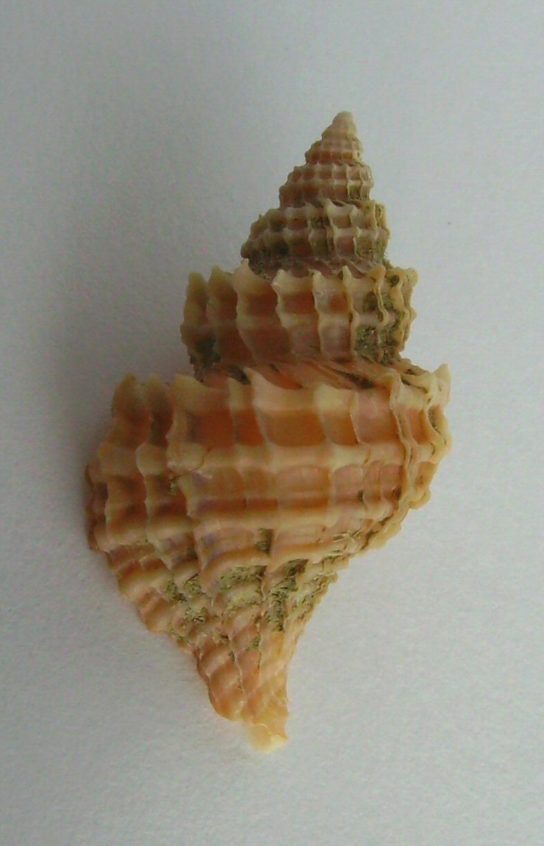 Zeatrophon ambiguus (Philippi, 1844) (synonym: Xymene ambiguus )(large trophon) (female) dredged from Northland east coast, New Zealand. This work has been released into the public domain by its author, Graham Bould. This applies worldwide.In some countries this may not be legally possible; if so:Graham Bould grants anyone the right to use this work for any purpose, without any conditions, unless such conditions are required by law.